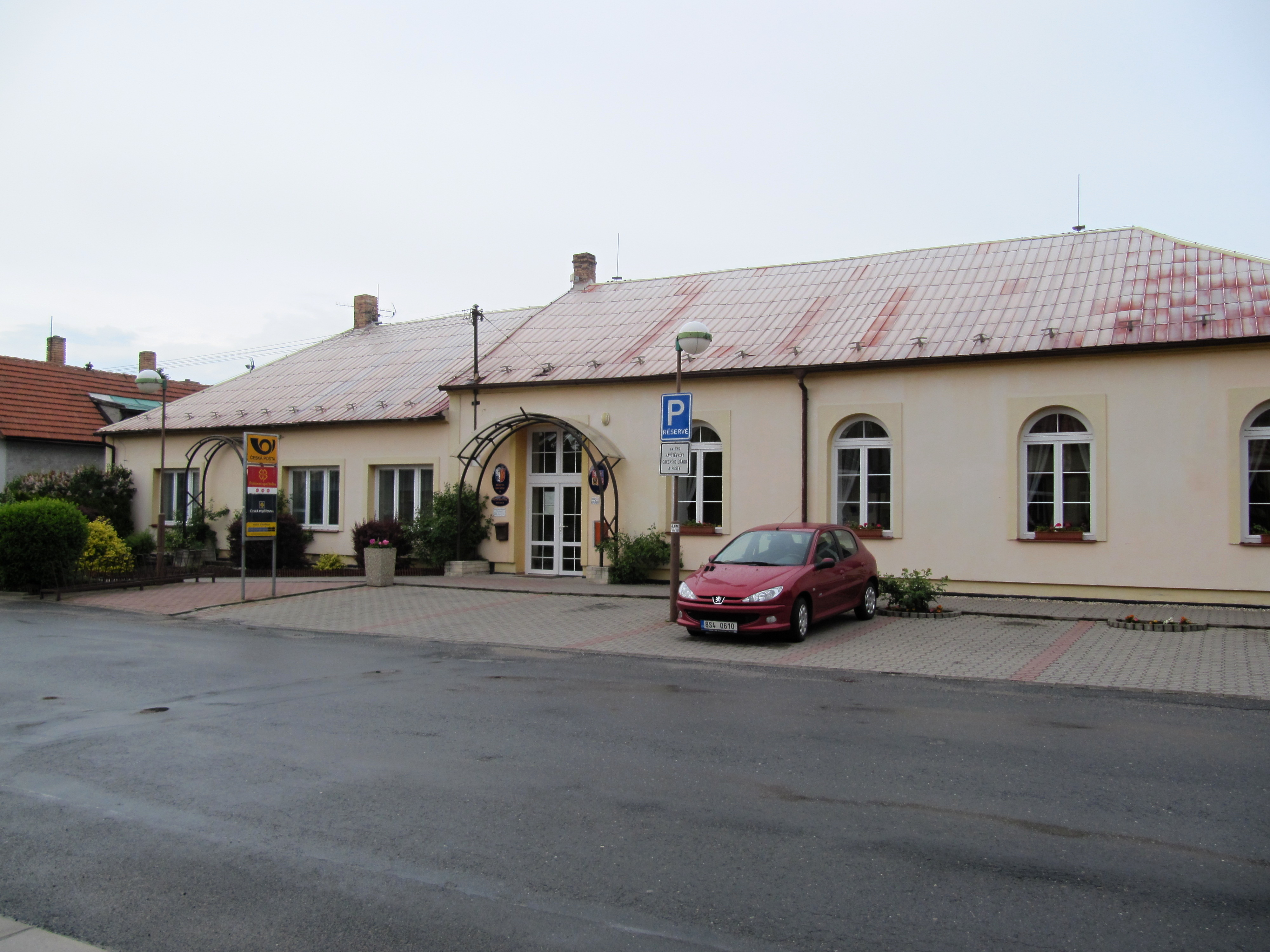 Kounice, Nymburk District, Czech Republic.